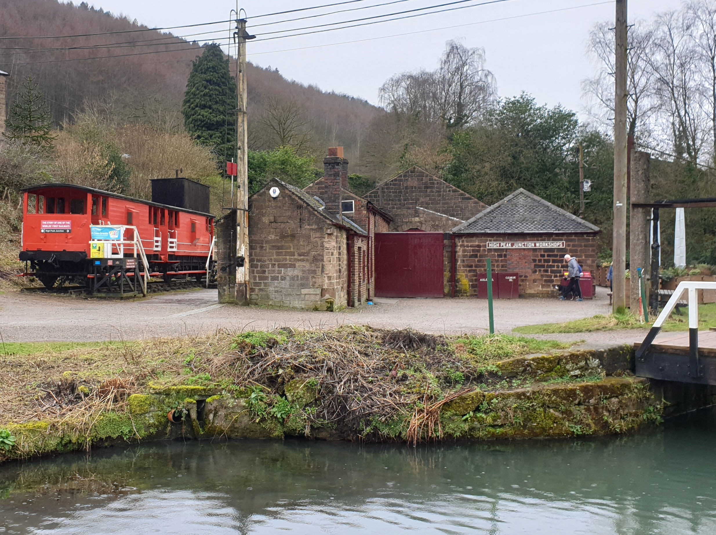 High Peak Junction Workshops by Cromford Canal